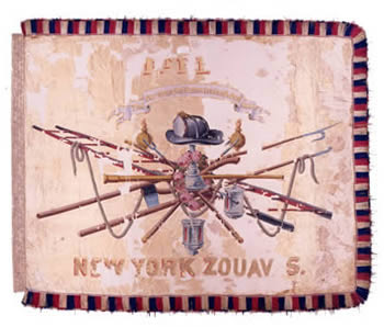 Regimental colors of the 11th New York Volunteer Infantry Regiment